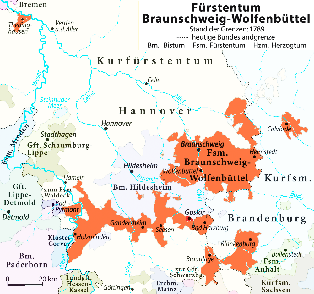 Duchy of Brunswick 1789